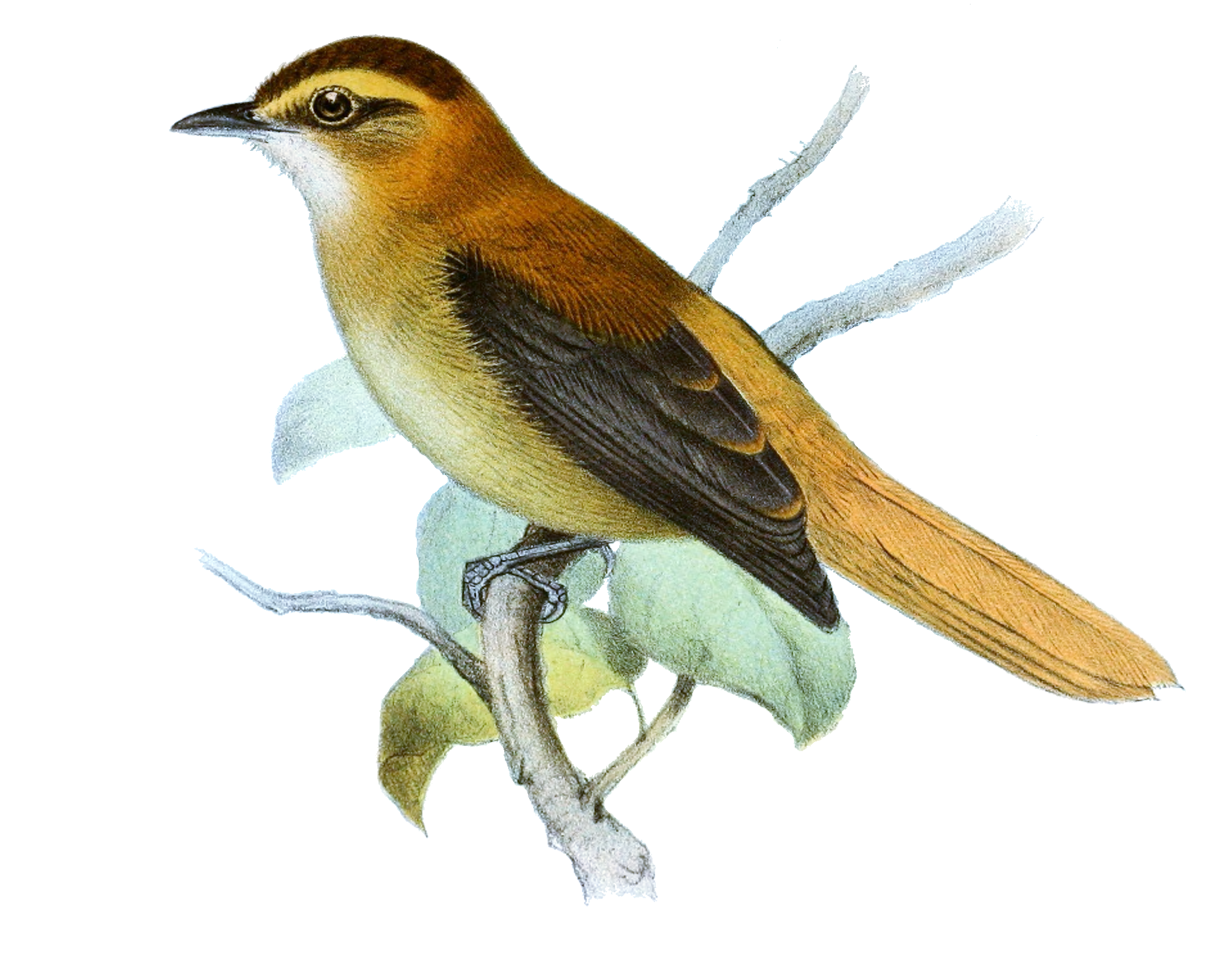 Rufous-backed Foliage-gleaner